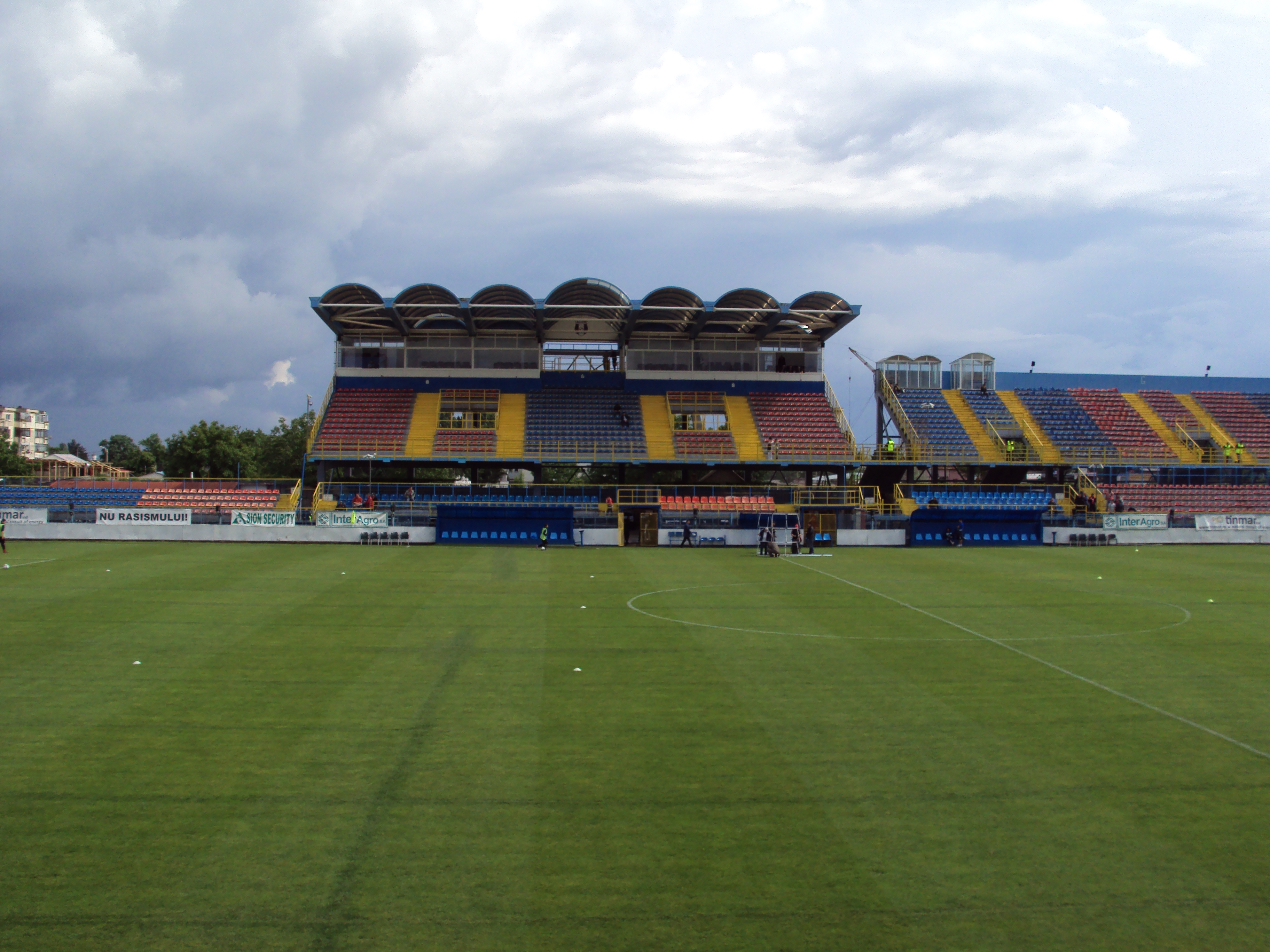 Picture taken at the game Astra Ploieşti-Gaz Metan Mediaş.